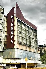 oldest Cinemas in Grant Road,Mumbai